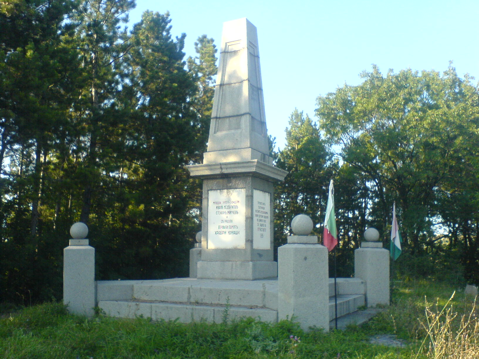 Monument - village Aldomirovtzi, Bulgaria - Serbo-Bulgarian war 1885